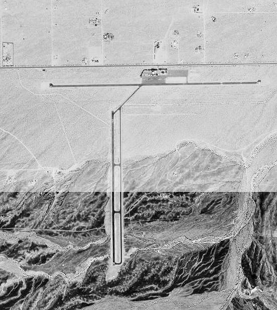 USGS digital orthophoto of Twentynine Palms Airport in California